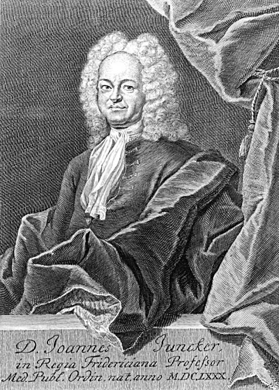 Johann Juncker (1679-1759), German Physician